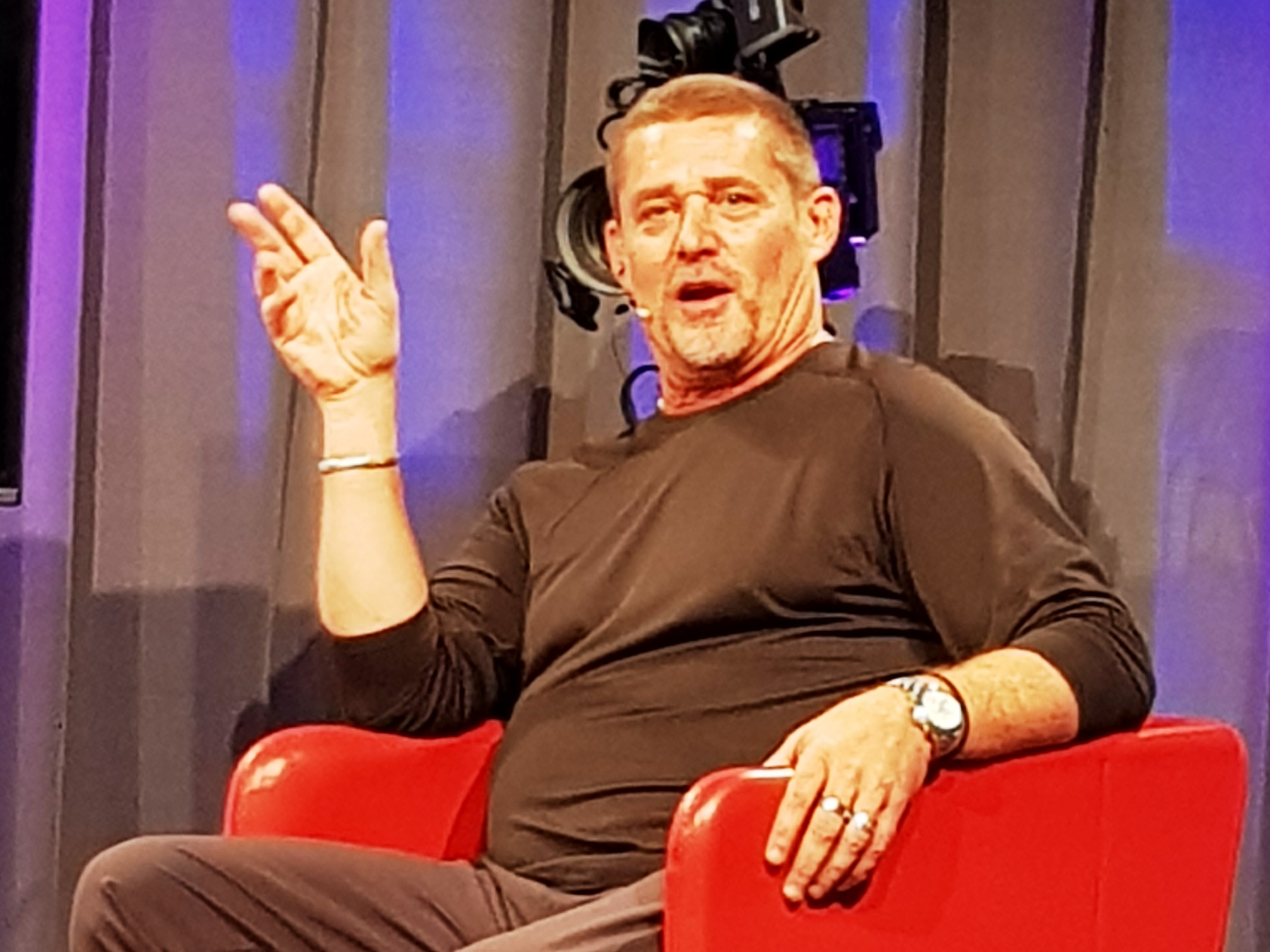 Glen Schofield's masterclass at Cité des Sciences, Paris (22/09/2017)